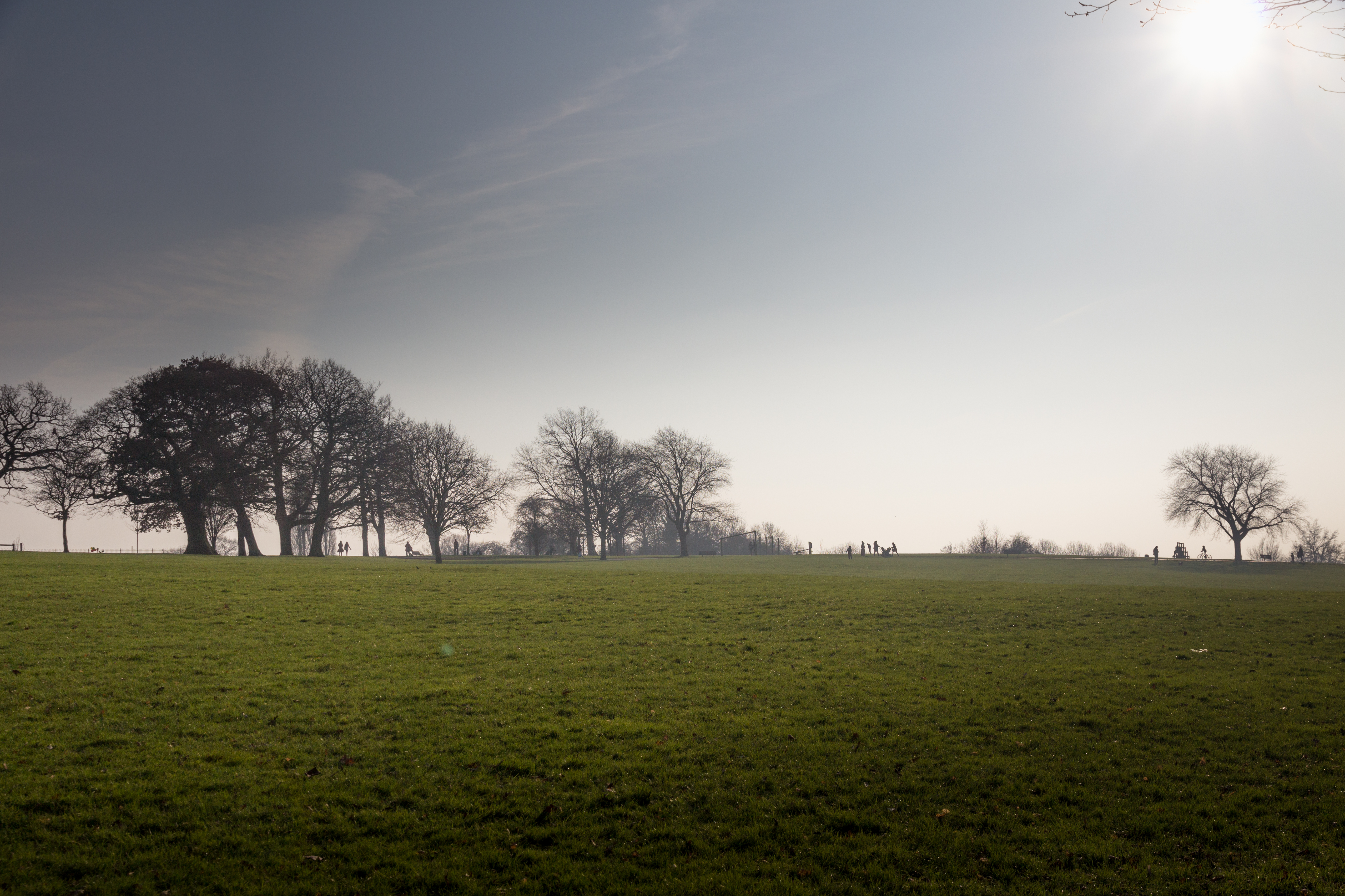 Lewisham's Mountsfield Park in Winter